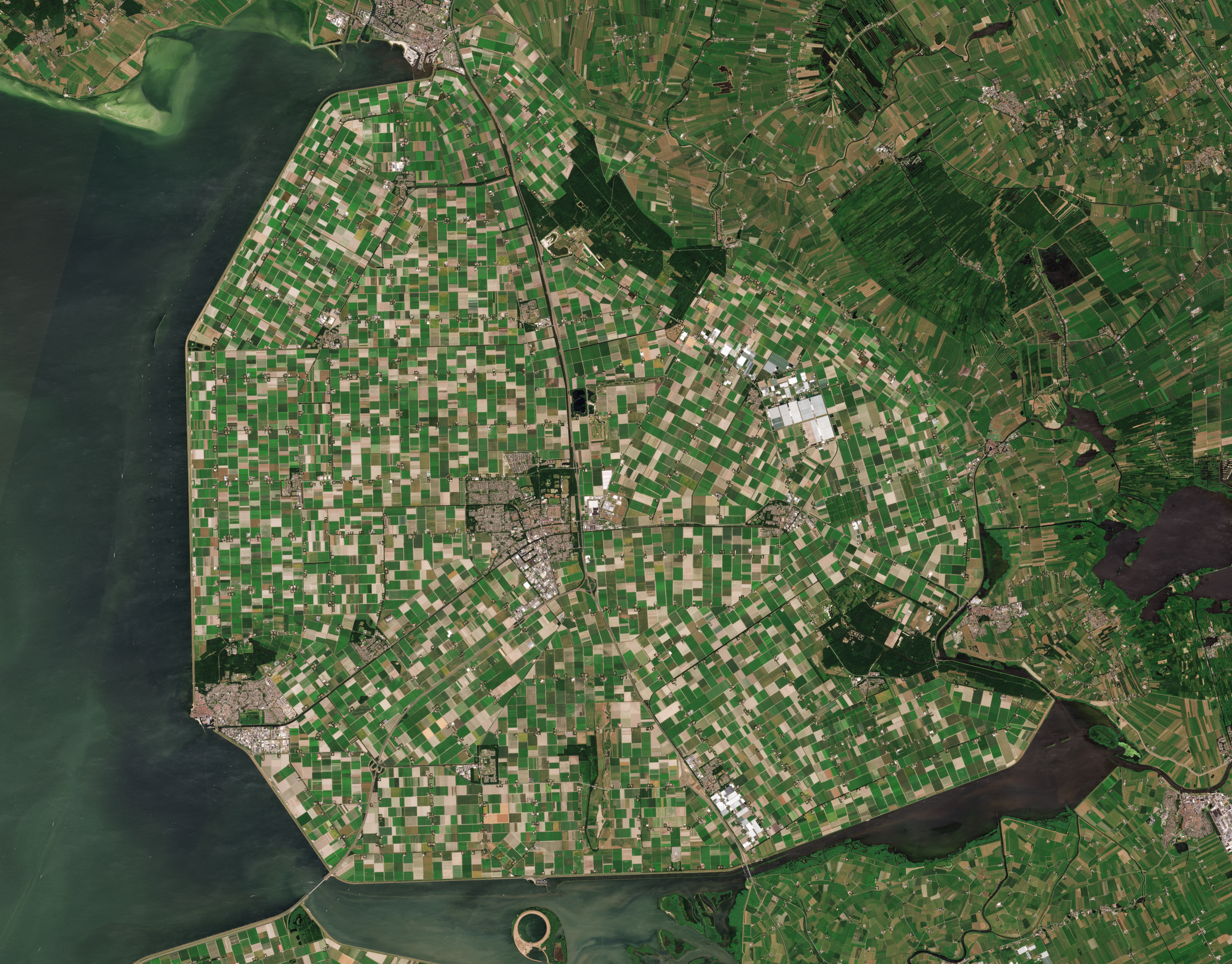 Date: 2018-06-30 Sensor: MSI on Sentinel-2A Resolution: 10m RGB Composites: True color, Band 4-3-2